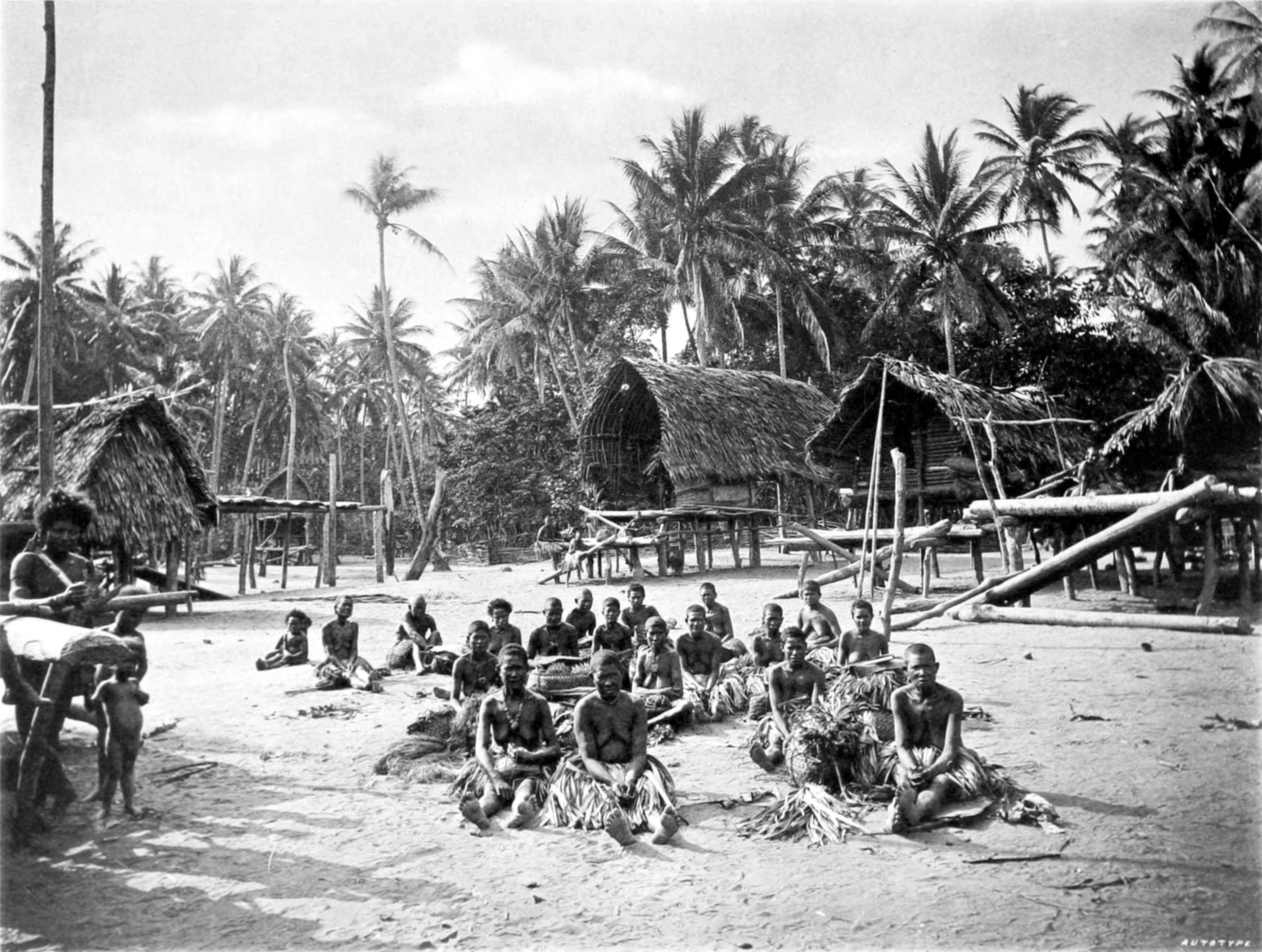 Kerepunu women at the market place of Kalo